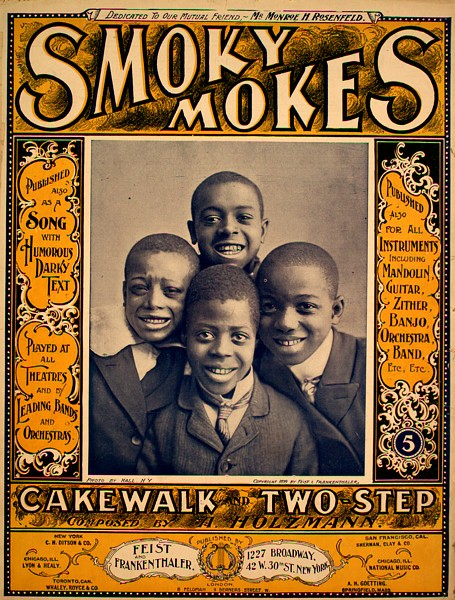 Smoky Mokes, 1899